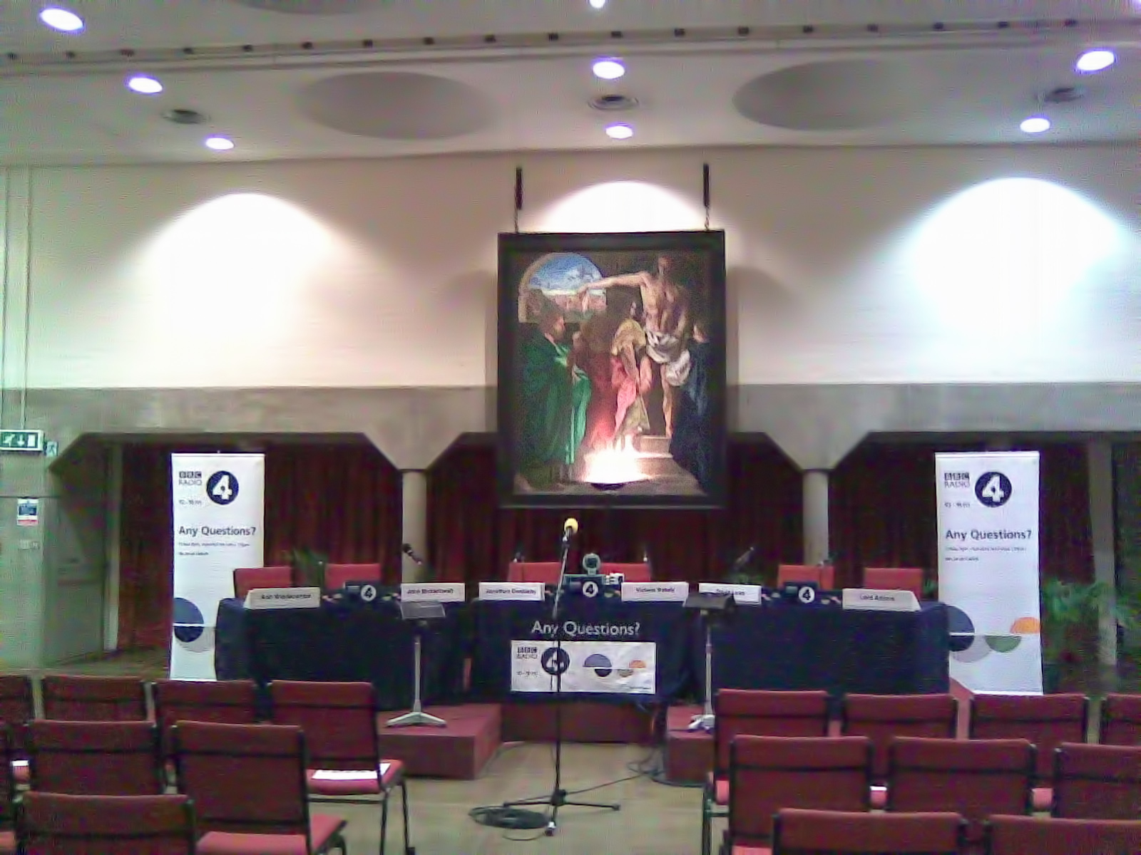 Any Questions? setting up at the Oxford University Catholic Chaplaincy.